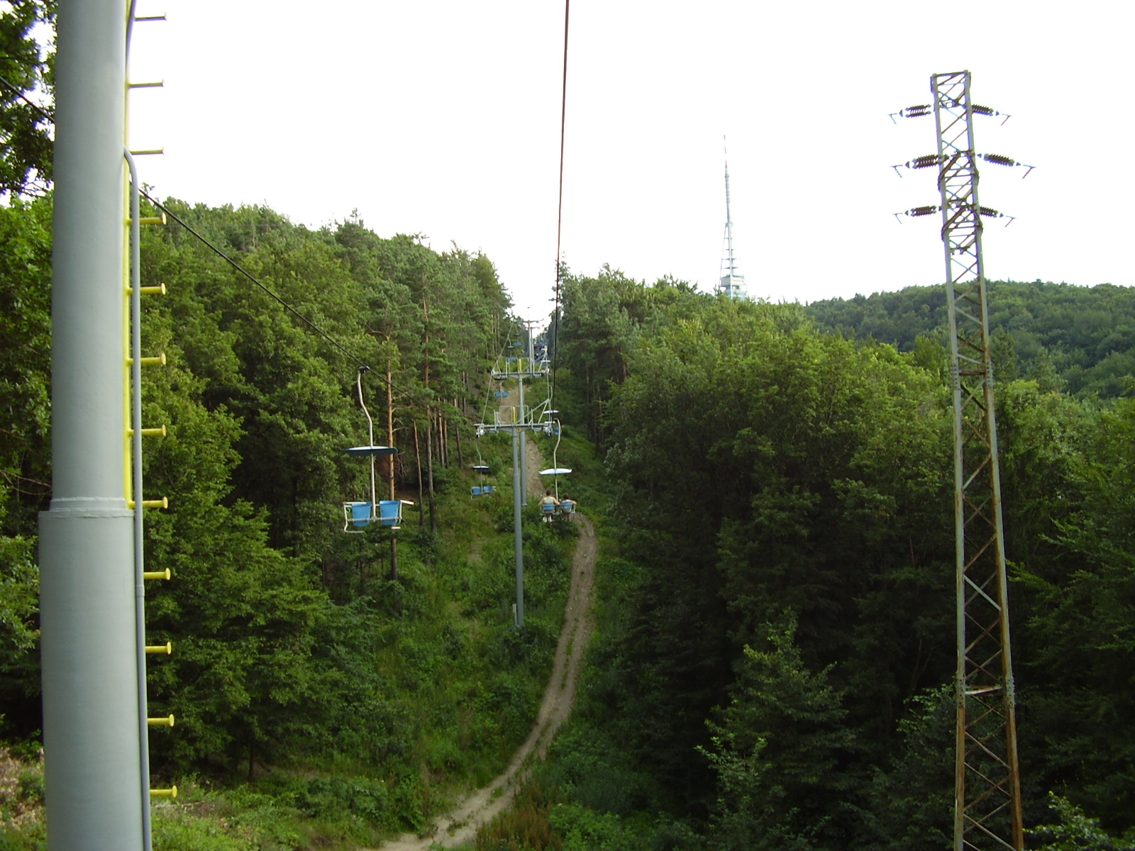 A chairlift to Koliba from the city, with the Kamzík TV Tower in the background.